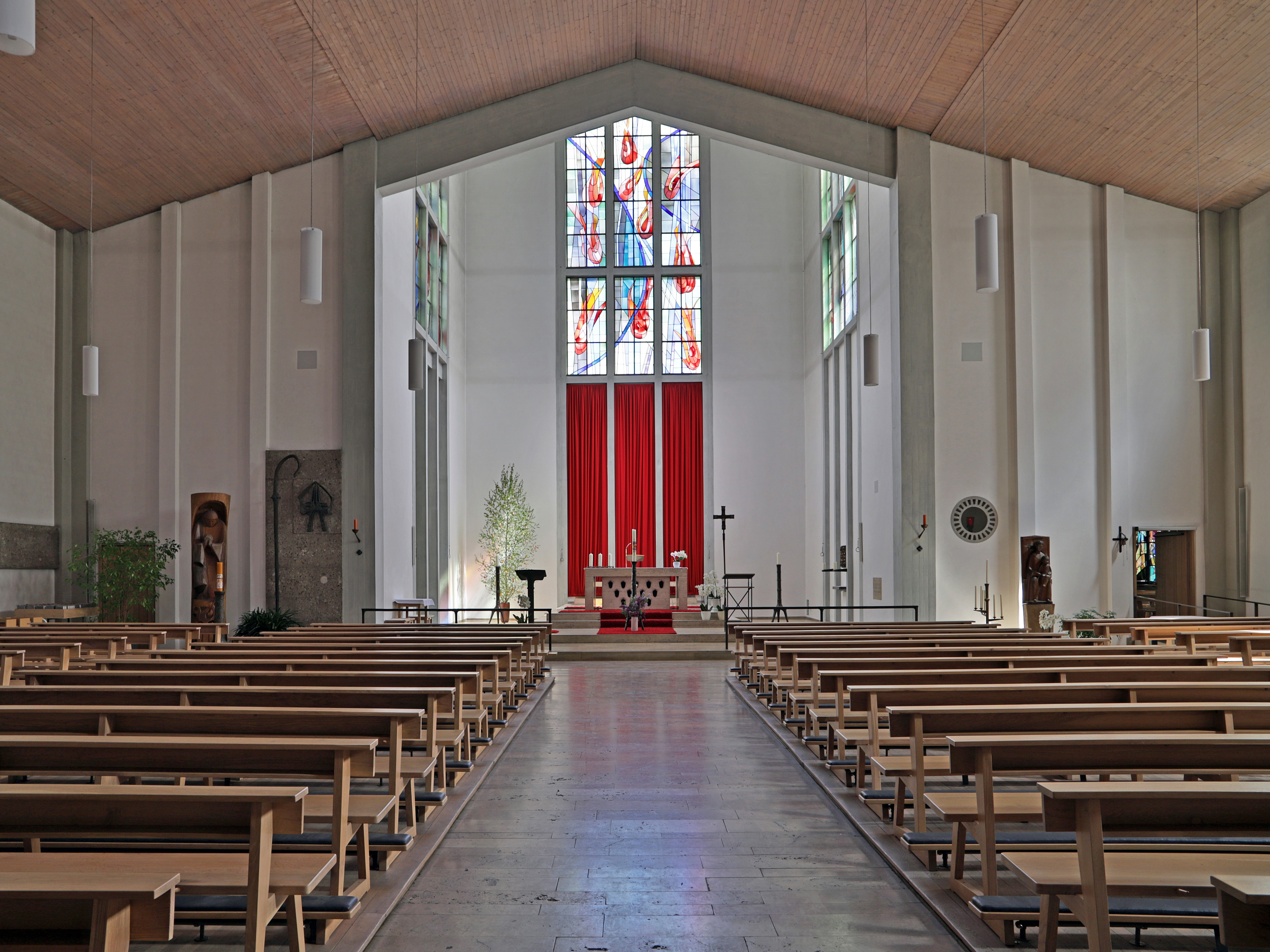 St. Lantpert München